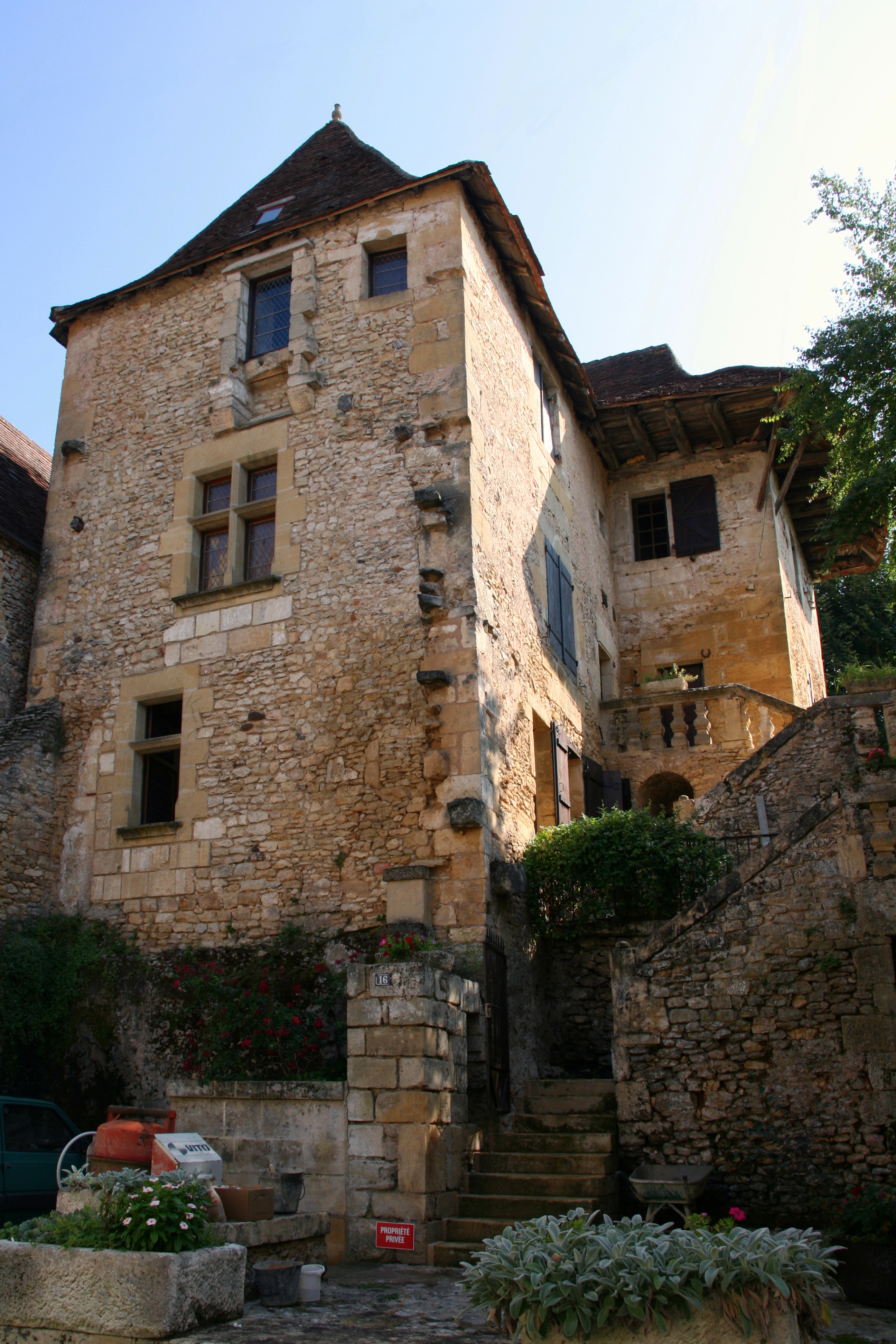 House in the Grand'rue ("great street") of Le Bugue, Dordogne, Aquitaine, France.